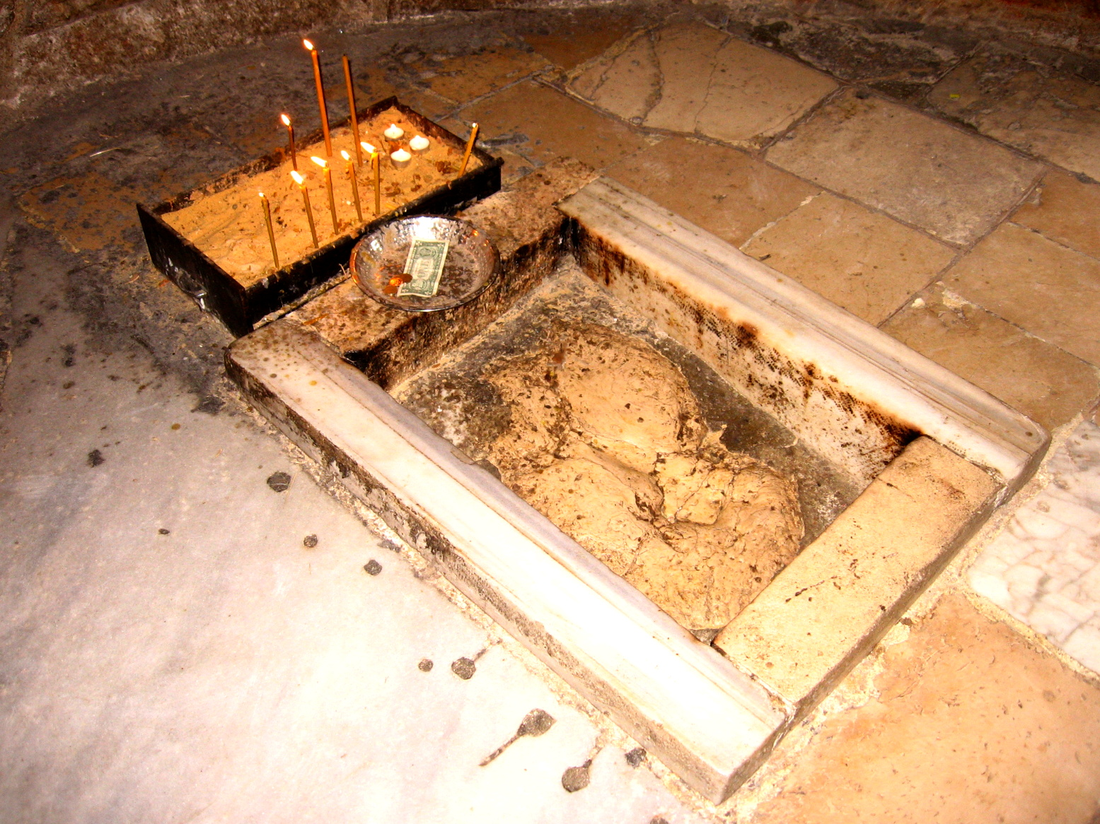 The Ascension rock on Mount of Olives, Jerusalem, said to bear the imprint of the right foot of Jesus as he ascended, venerated by Christians as the last point on earth touched by the incarnate Christ.